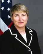 Official Photo of Pamela J. H. Slutz, was the U.S. Ambassador to Mongolia from 2003-2006 and the Deputy Chief of Mission in Nairobi, Kenya (2006-2009). Currently ambassador to Burundi